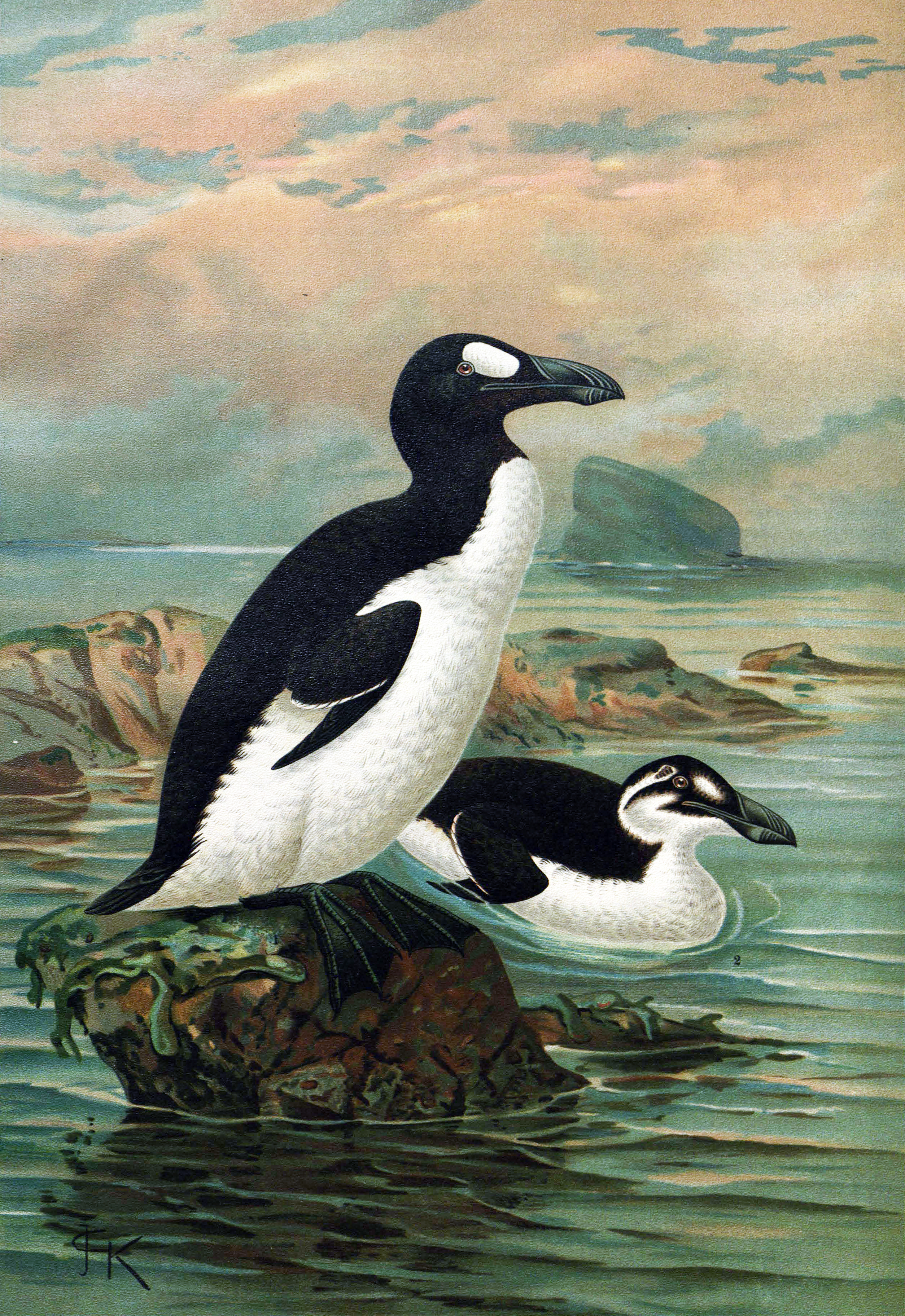 Great Auks (extinct) in summer and winter plumage.